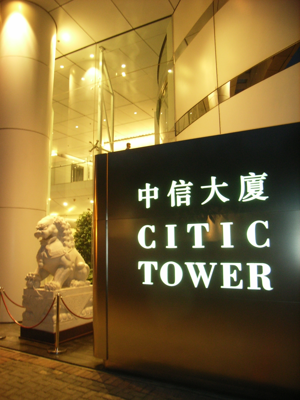 位於zh:金鐘添馬艦東鄰的中信大厦, Citic Tower, Hong Kong ZSDH